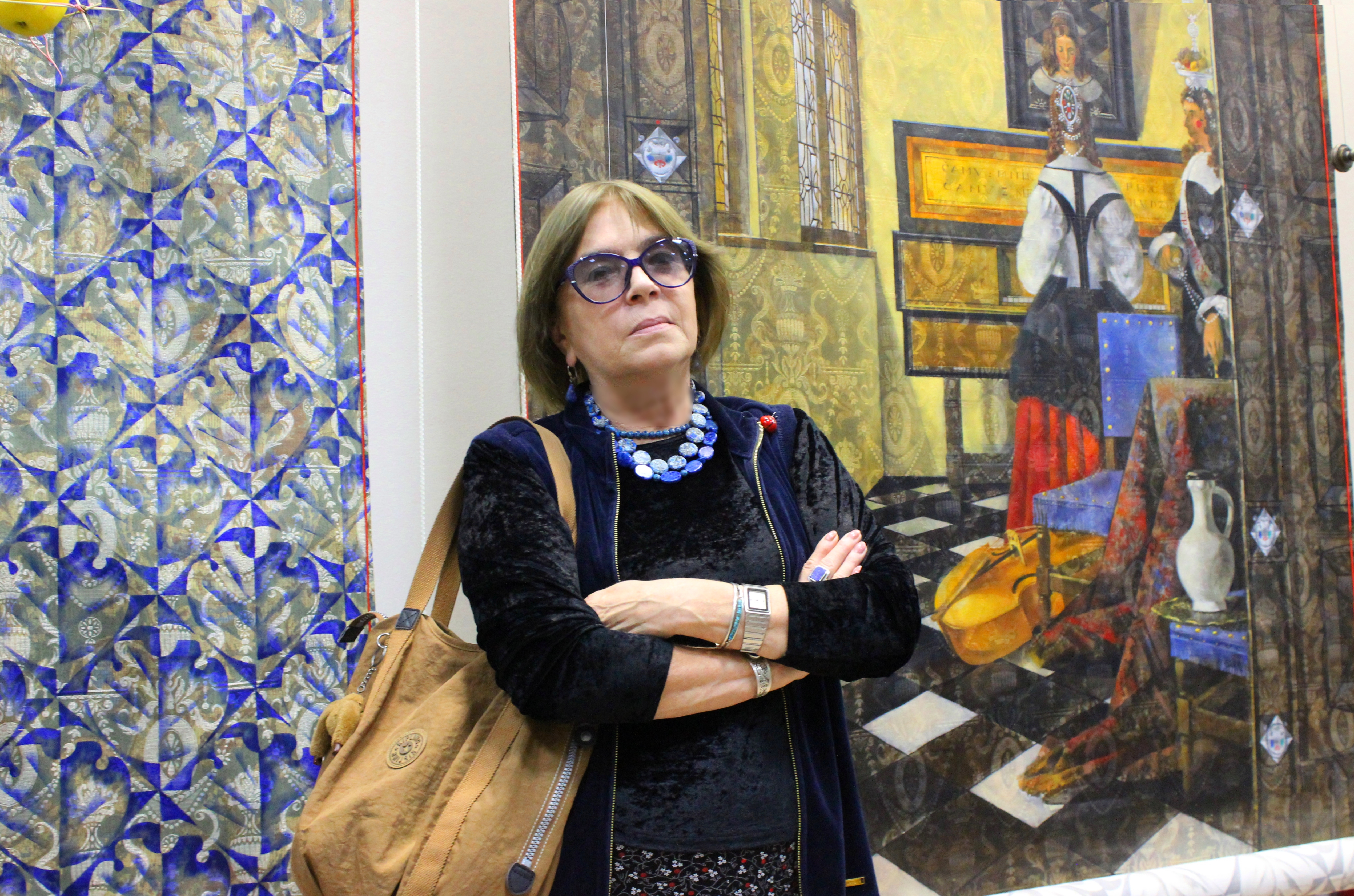 Opening of the art project "Dialogue epochs. Interpretation" in Minsk Art Gallery of Leonid Schemelev September 5, 2014. Vera Savina.